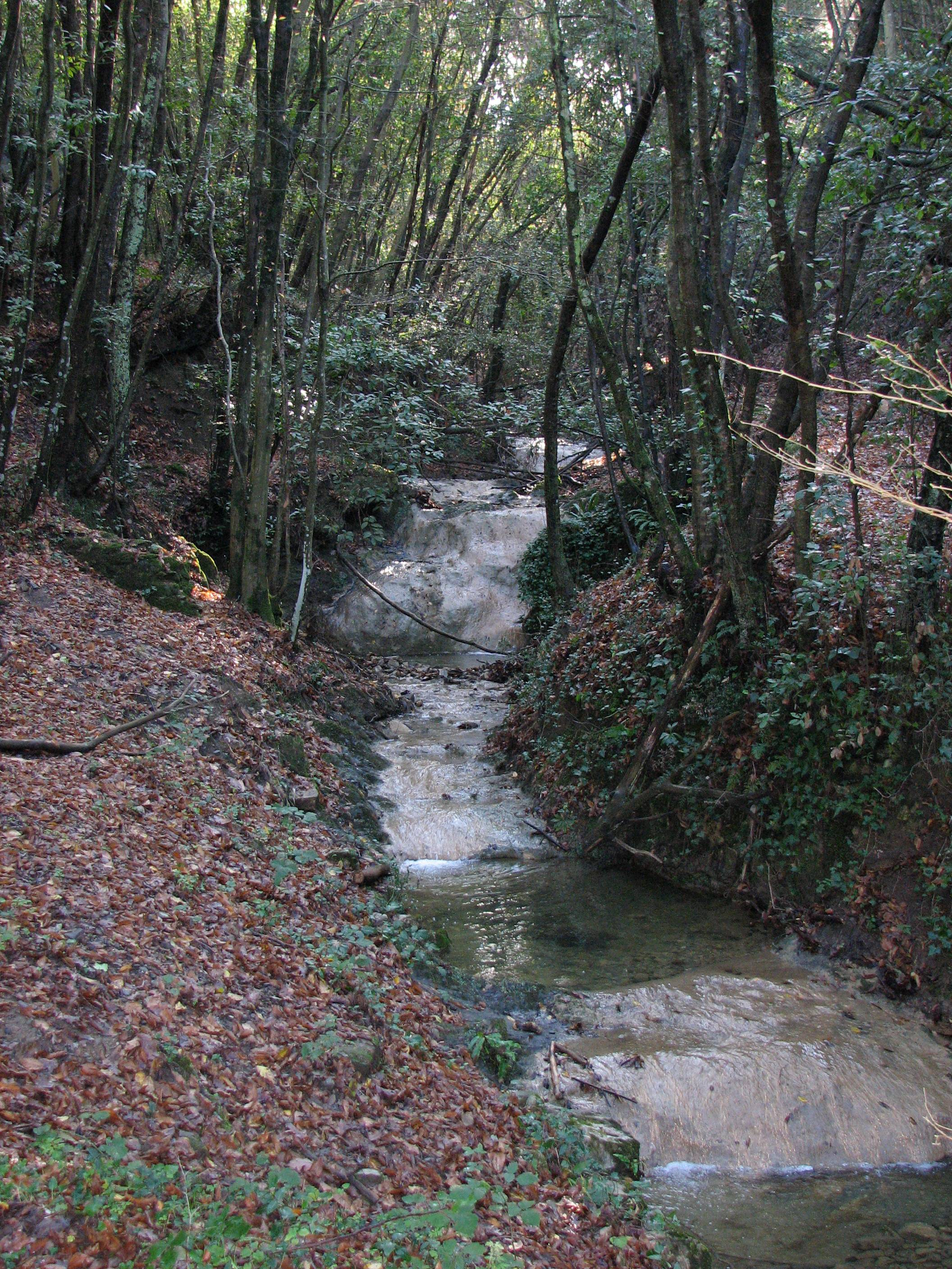 Torrente Ugione (Italy)